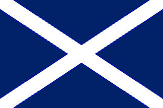 Ensign of the Indo-China Steam Navigation Co., Ltd.